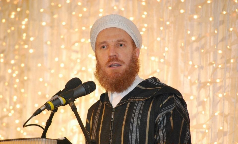 Shaykh Muhammad Al-Yaqoubi